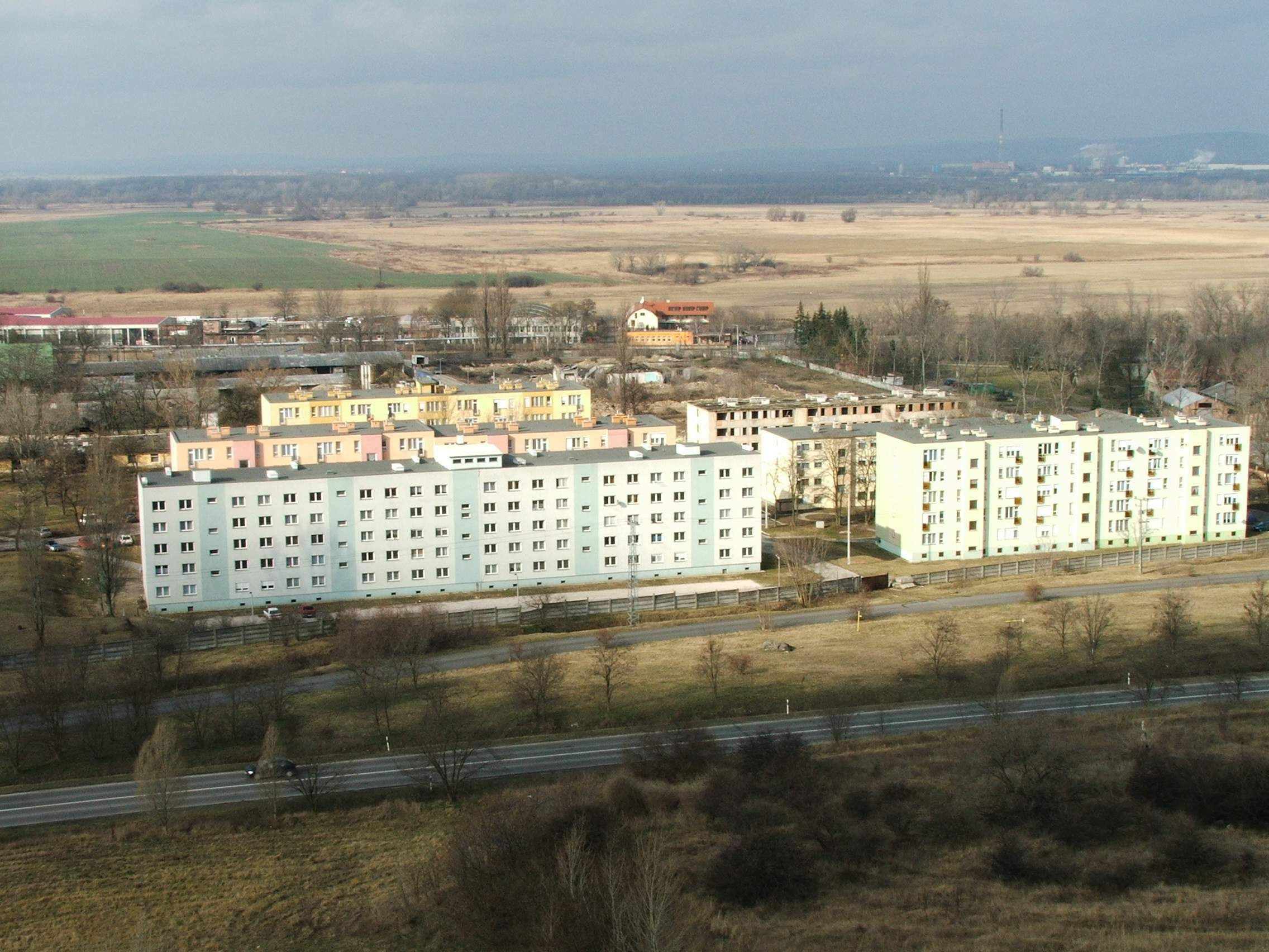 Old soviet barrack buildings in Esztergom, Hungary